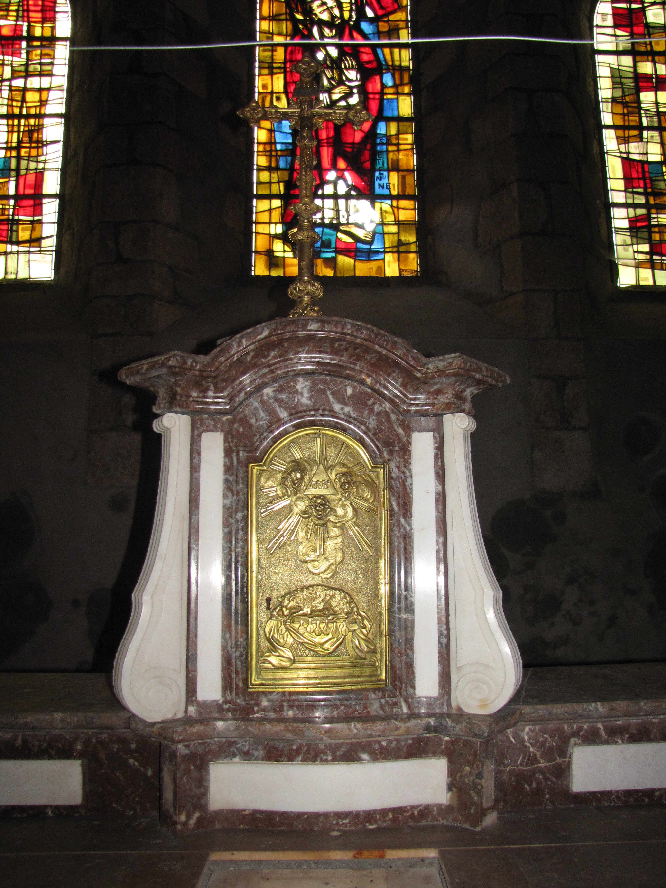 Château-Renard, Saint-Étienne church - tabernacle